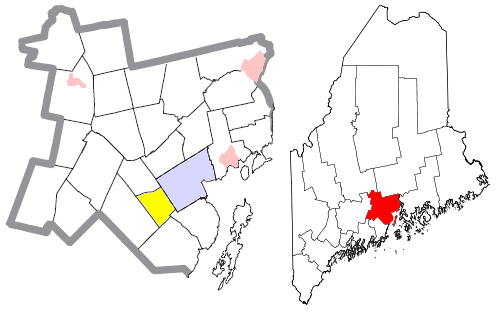 Map of the divisions of Waldo County, Maine, United States, with the town of Belmont highlighted in yellow. The city of Belfast is light blue; other towns are white; and pink areas are census-designated places within towns.